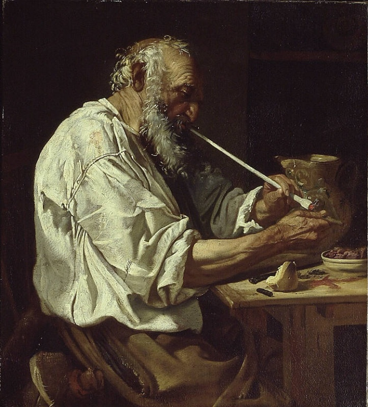 Johann Carl Loth. Old Peasant Lighting a Pipe